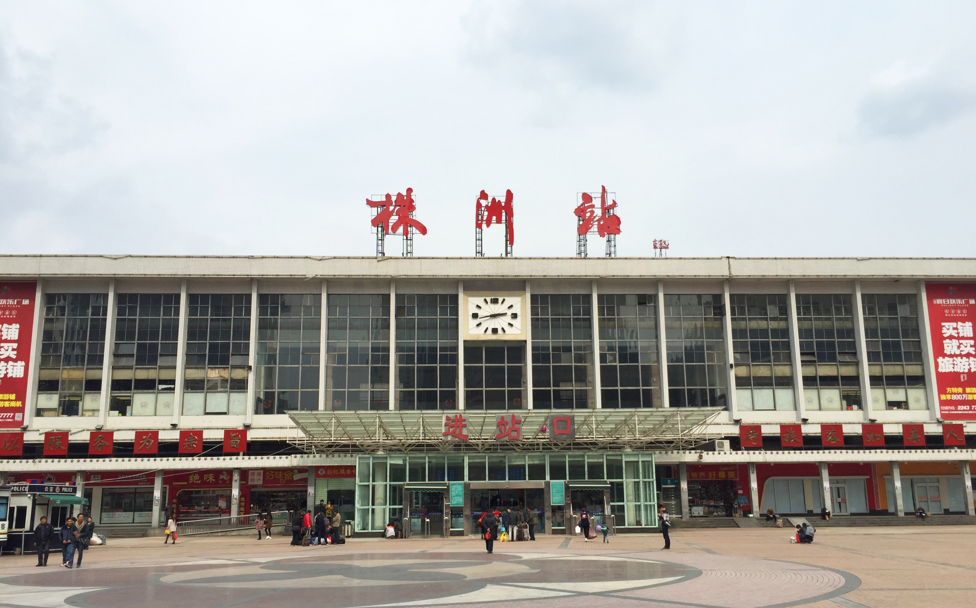 There's only one bus route to Zhuzhouxi, so we have to return here.